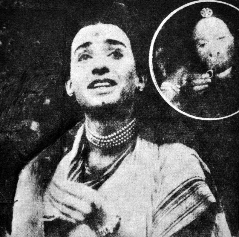 Actor Anna Salunke playing the role of Sita in the 1917 Indian silent film Lanka Dahan.